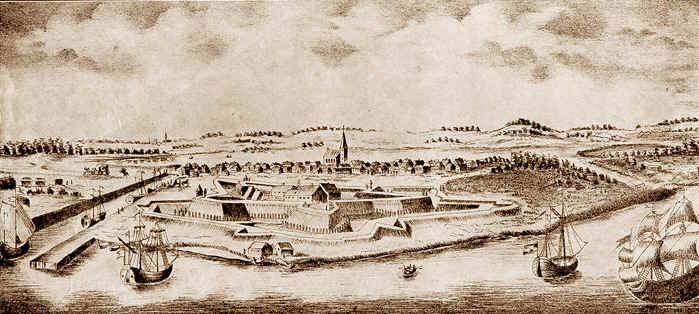 Liepāja